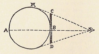 Intended for inclusion in Wikisource article for Flatland